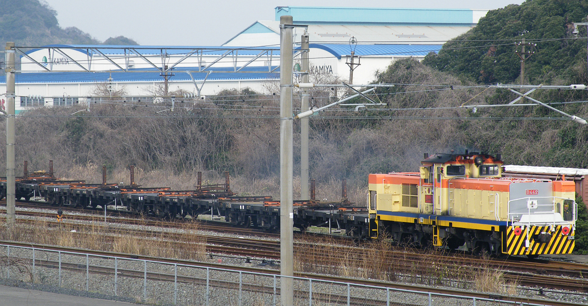 Rail freight cars pushed by Nippon Steel's switcher D442 at Nishi-yahata Sta., Kita-kyushu city, Japan.